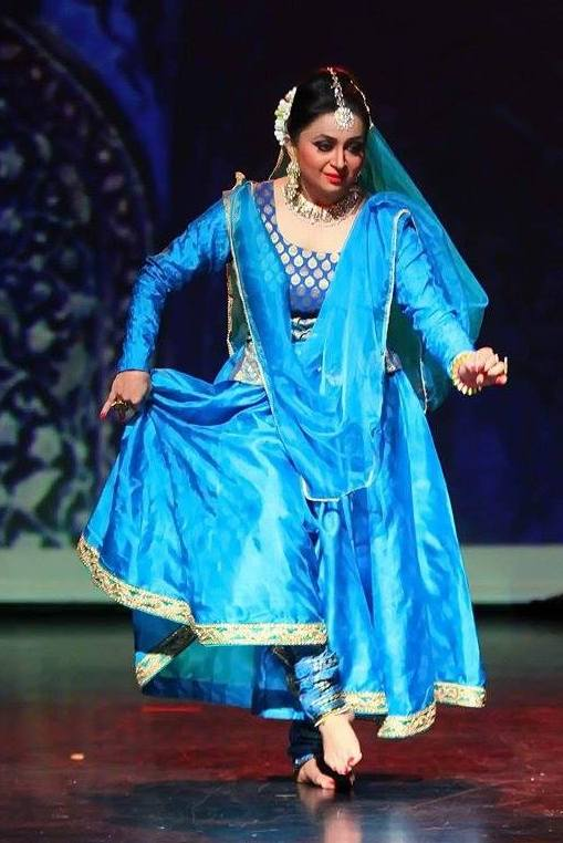 Pali Chandra performing in Navinayika, Dubai